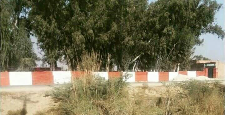 I also Uploaded this Photo on Botala Facebook Page & on website